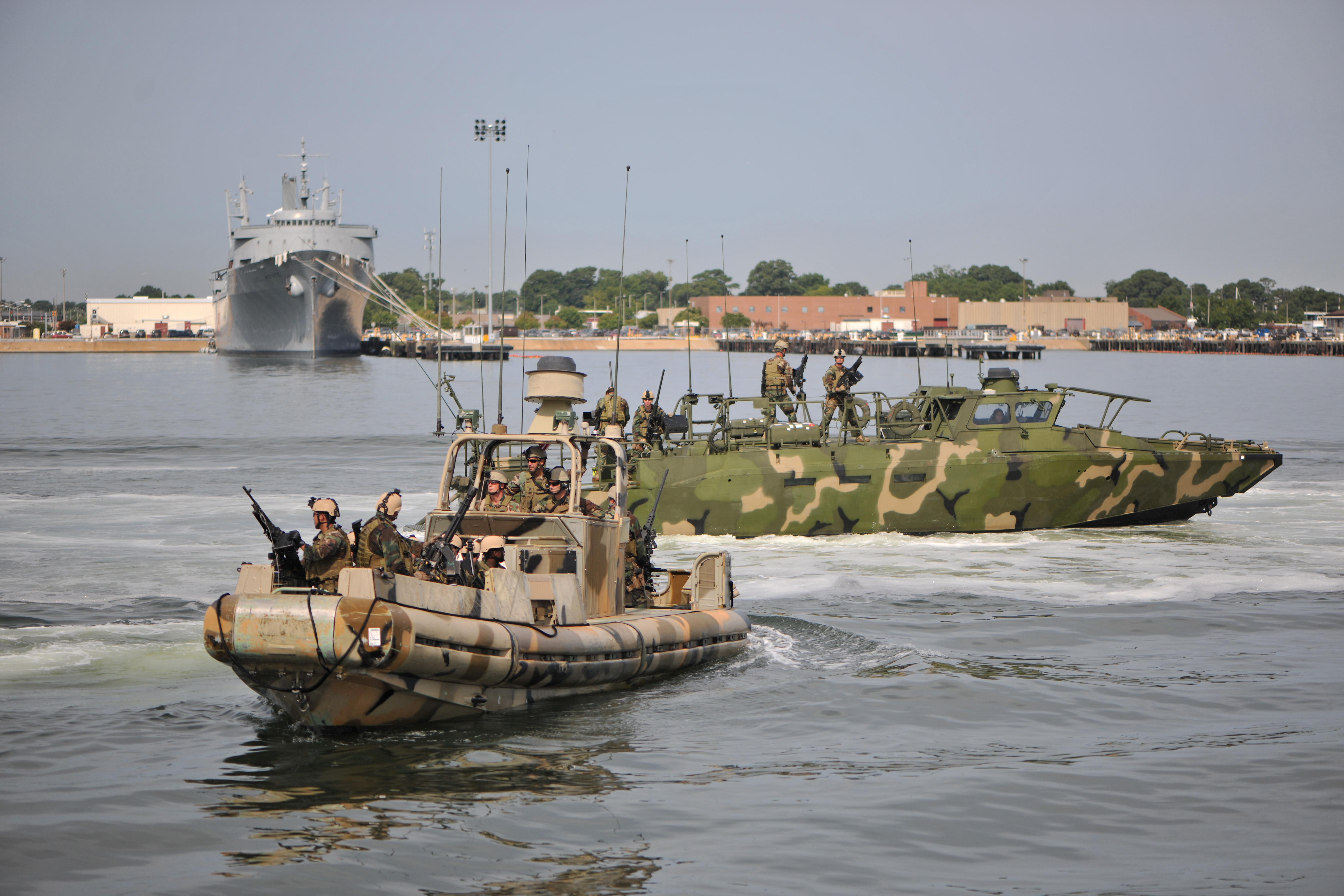 VIRGINIA BEACH, Va. (Aug. 18, 2011) Sailors assigned to Riverine Squadron (RIVRON) 1 use a riverine patrol boat, left, and a riverine command boat to perform a live boat demonstration for Colombia Chief of Navy Adm. Alvaro Echandia Duran during his visit to Navy Expeditionary Combat Command. Echandia observed how expeditionary Sailors operate with partner nations during his visit. (U.S. Navy photo by Mass Communication Specialist 2nd Class Paul D. Williams/Released)